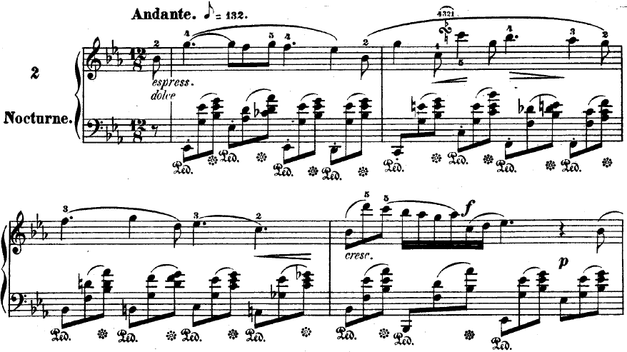 First few bars of Chopin's Nocturne Op 9, No 2